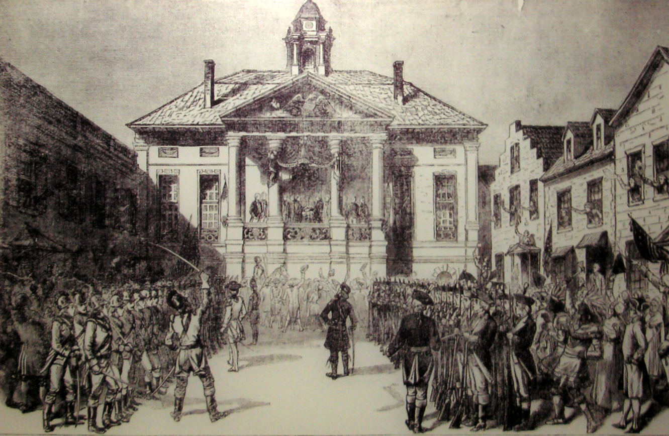 This panel from the 1939 U.S. Constitution Sesquicentennial Commission commemorates the inauguration of the first President of the United States, George Washington. His swearing-in ceremony took place on the balcony of the Public House, later called Federal Hall. This lithograph is one of the few images of Federal Hall before it was demolished in 1812. Facsimile taken at Federal Hall. Original located in the National Archives, Records of Exposition, Anniversary and Memorial Commissions.